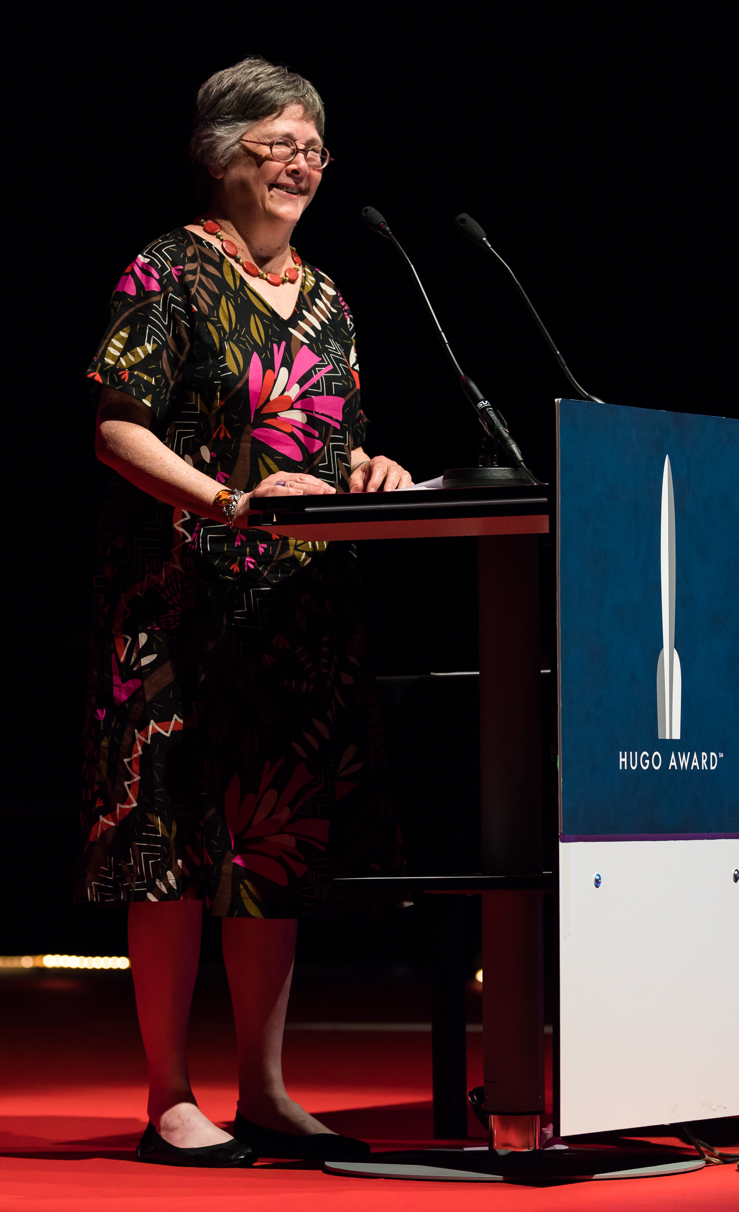 Lisa Tuttle at the Hugo Award Ceremony 2017, Worldcon in Helsinki.